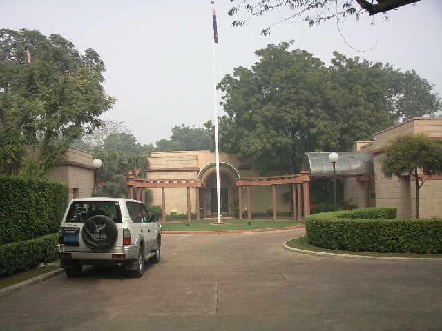 NZ HC in New Delhi